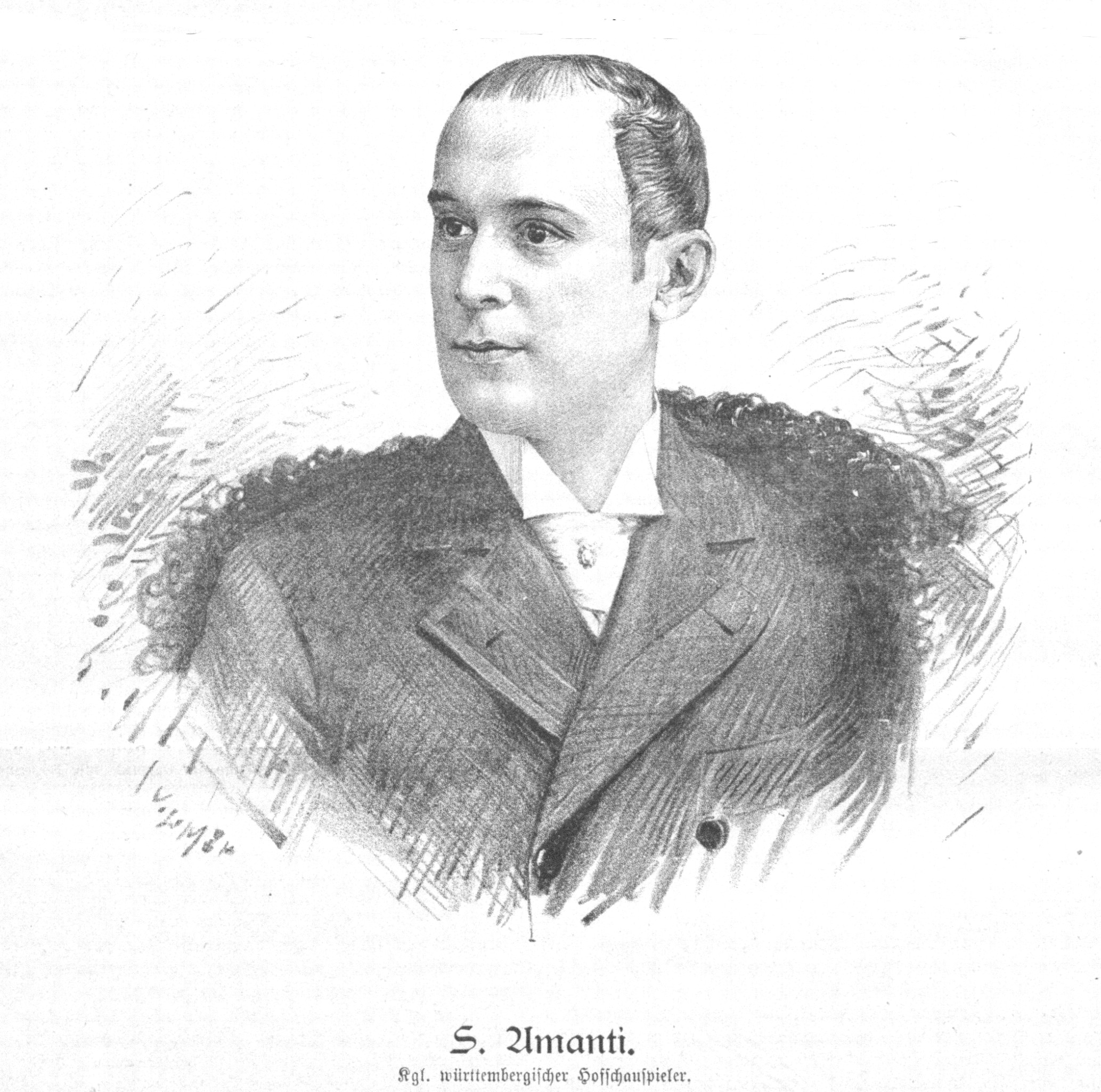 Portrait of Siegmund Amanti (1860-??), Austrian and German actor, member of Württemberg Theatre in Stuttgart.